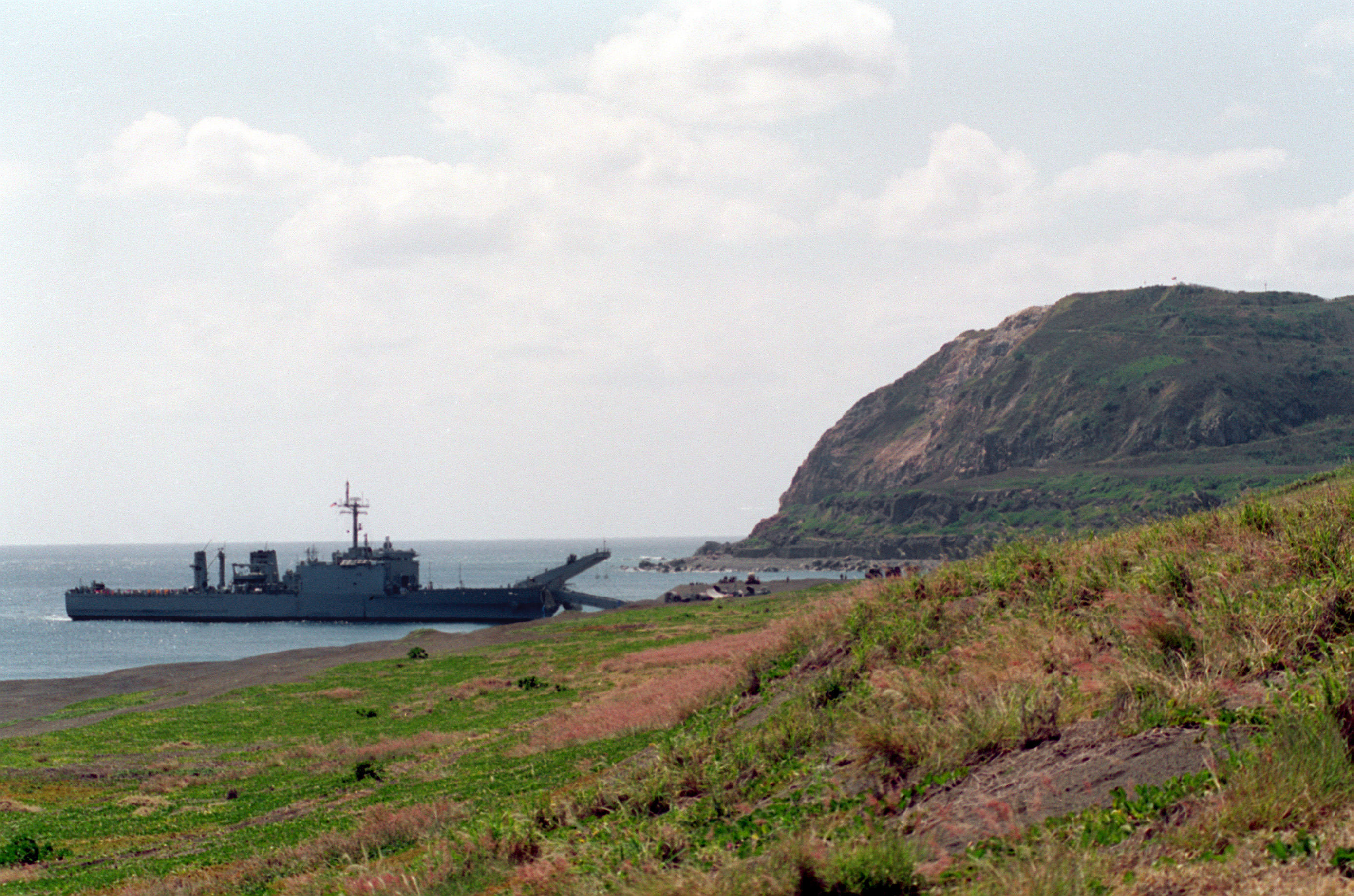 With Mount Suribachi in the background, the U.S. Navy tank landing ship USS San Bernardino (LST-1189) approaches the Iwo Jima beach where U.S. Marines fought a fierce battle in 1945 to gain control of this small island. The ship was demonstrating an amphibious landing for attendees of the memorial service commemorating the 50th anniversary of the battle for Iwo Jima.